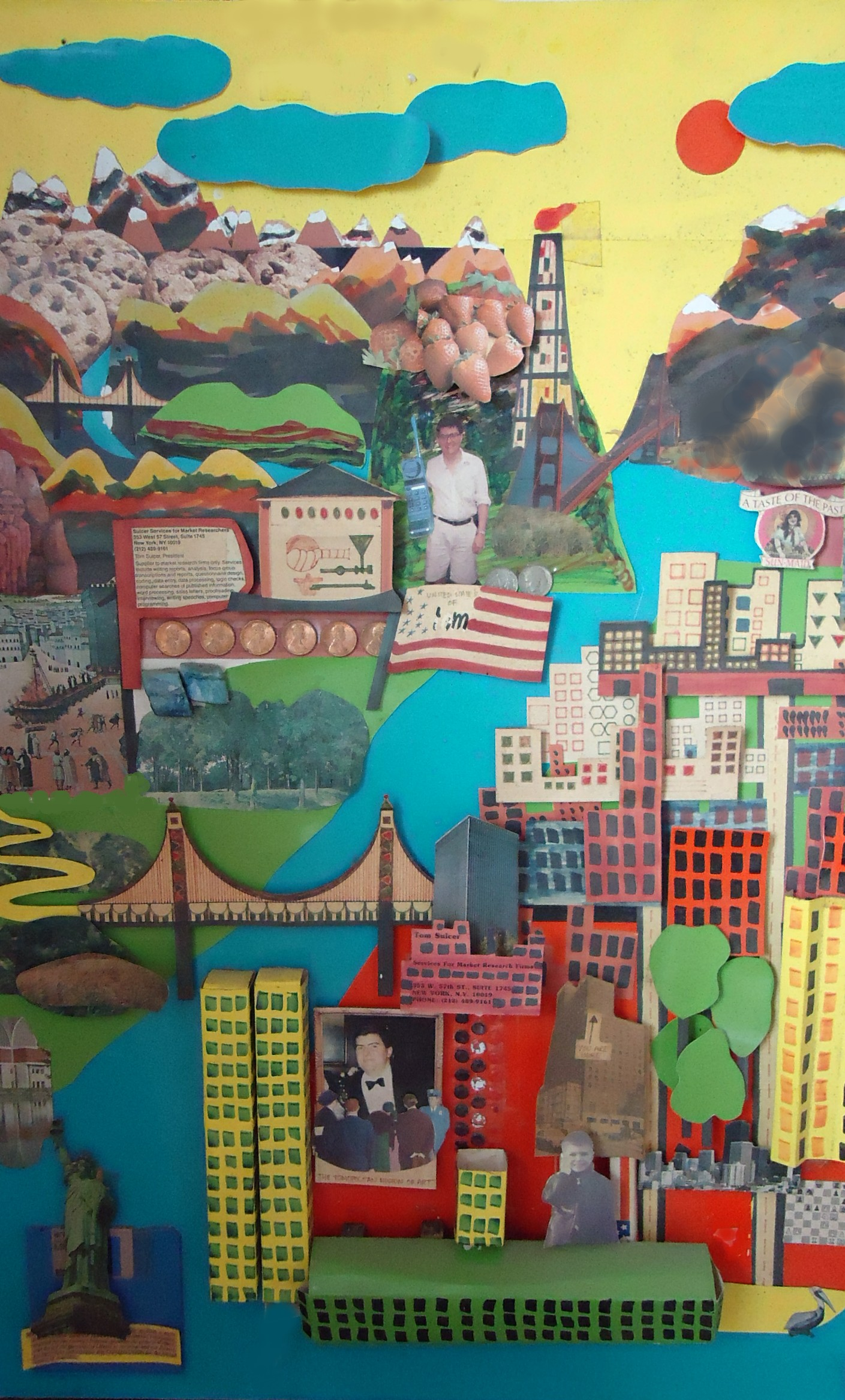 A collage I made of New York City, circa 1980s, using paper, photos I took of myself, business cards, wrappers, and other materials, using 3D for selected clouds, buildings. Note: date is approximate (probably middle 1980s). Lately, it gathered dust in the basement and the original was thrown out, but this photo of it is here in case people would like to use it for any purpose. -- tom sulcer October 4, 2011